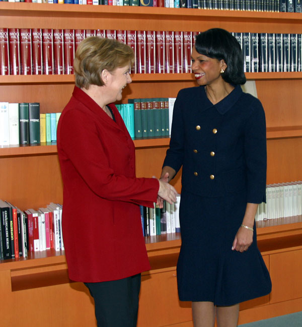 German chancellor Angela Merkel with US secretary of state Condoleezza Rice. Credit: US Embassy Berlin